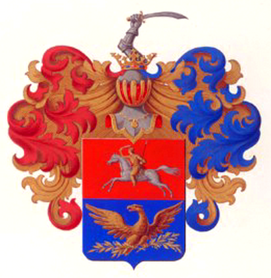 Coat of Arms of family Orlowski